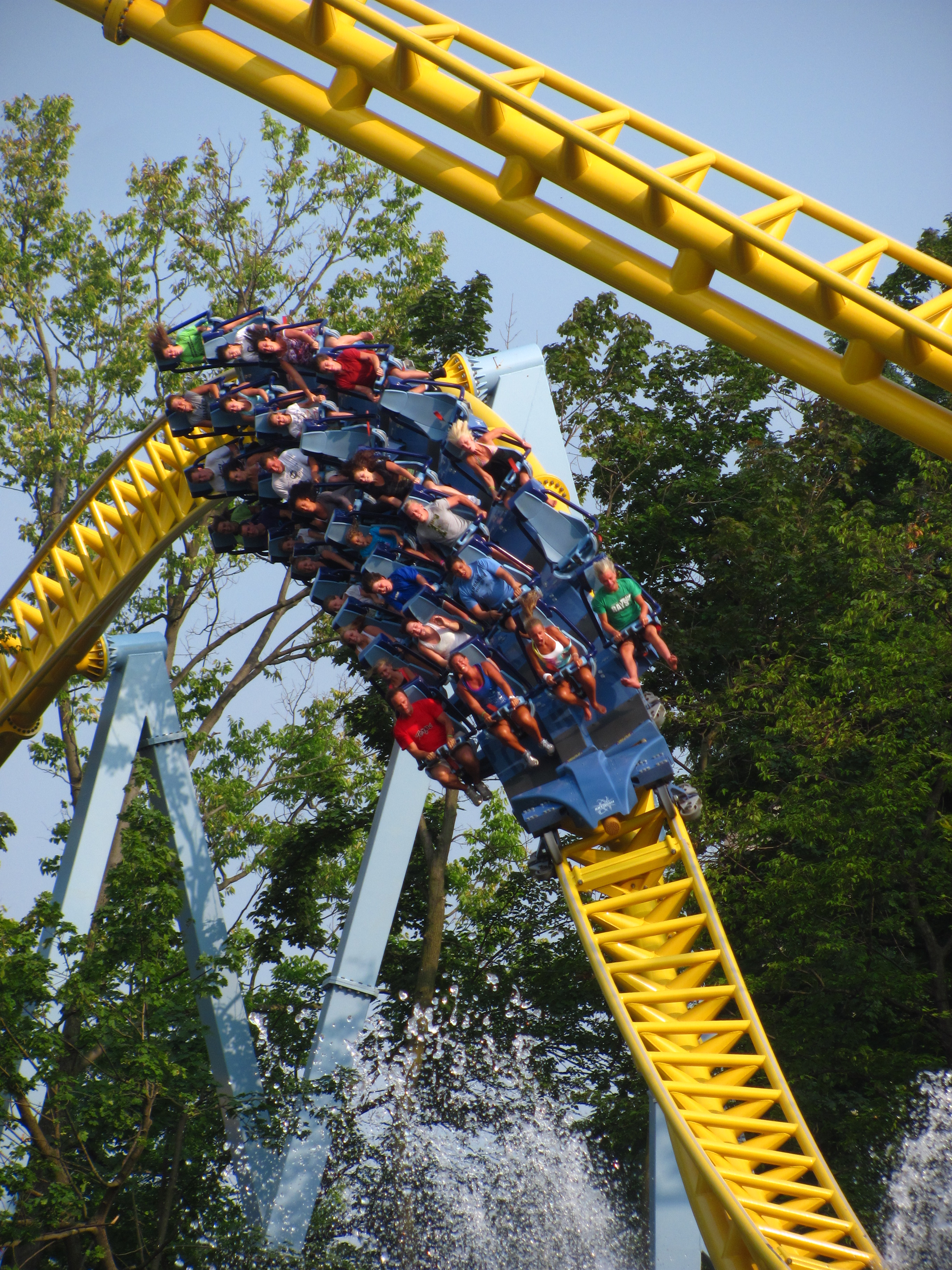 Hersheypark 070